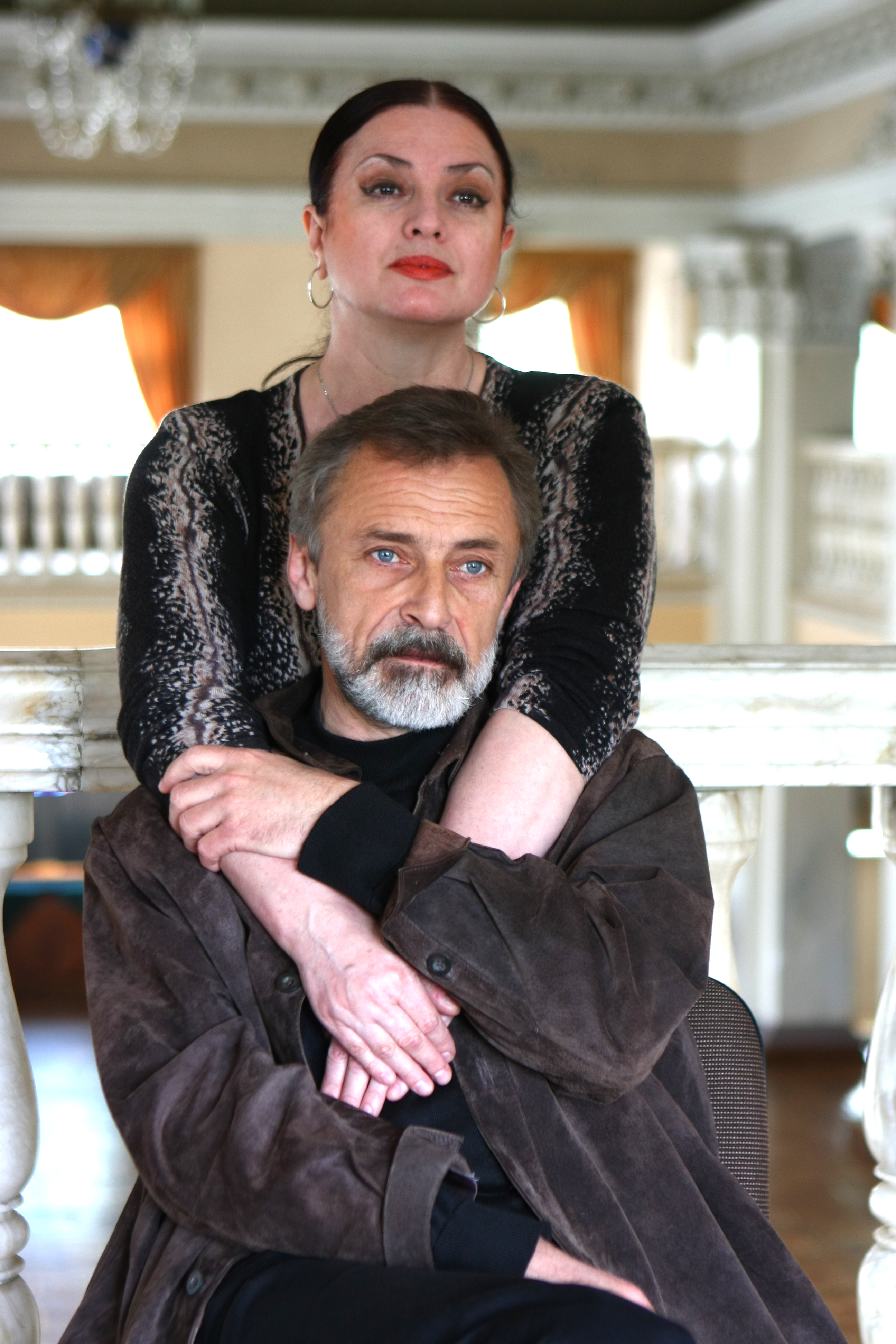 Oleh and Yaroslava Mosiychuk